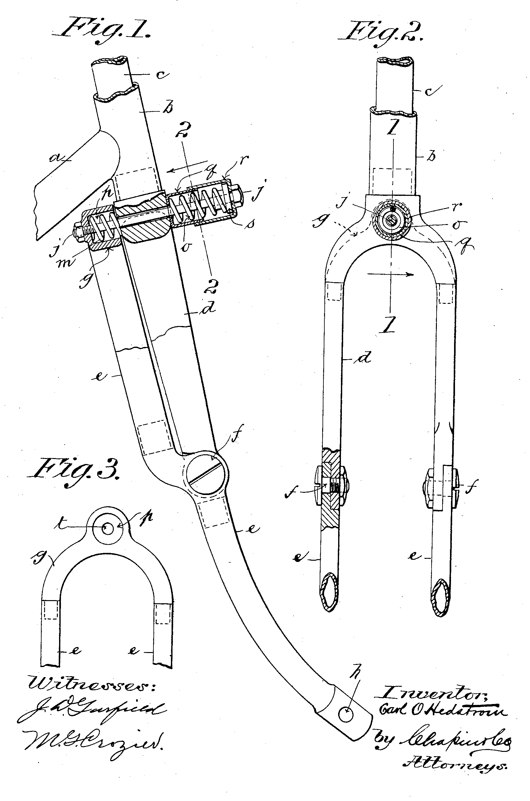 Spring-fork for vehicle-wheels